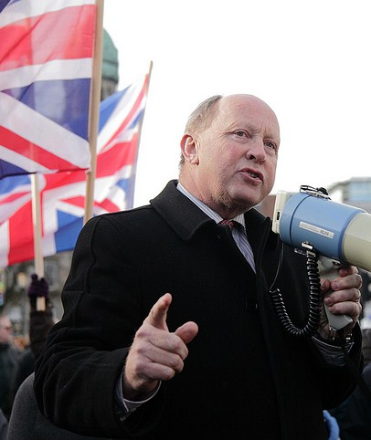 Jim Allister, TUV